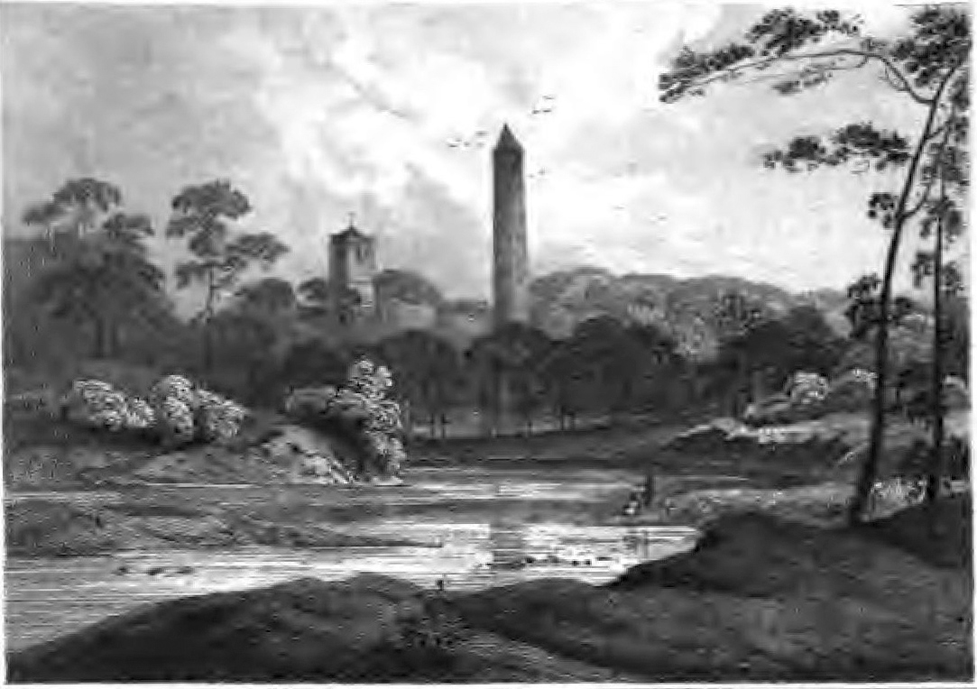 Round Tower, Clondalkin, Co. Dublin